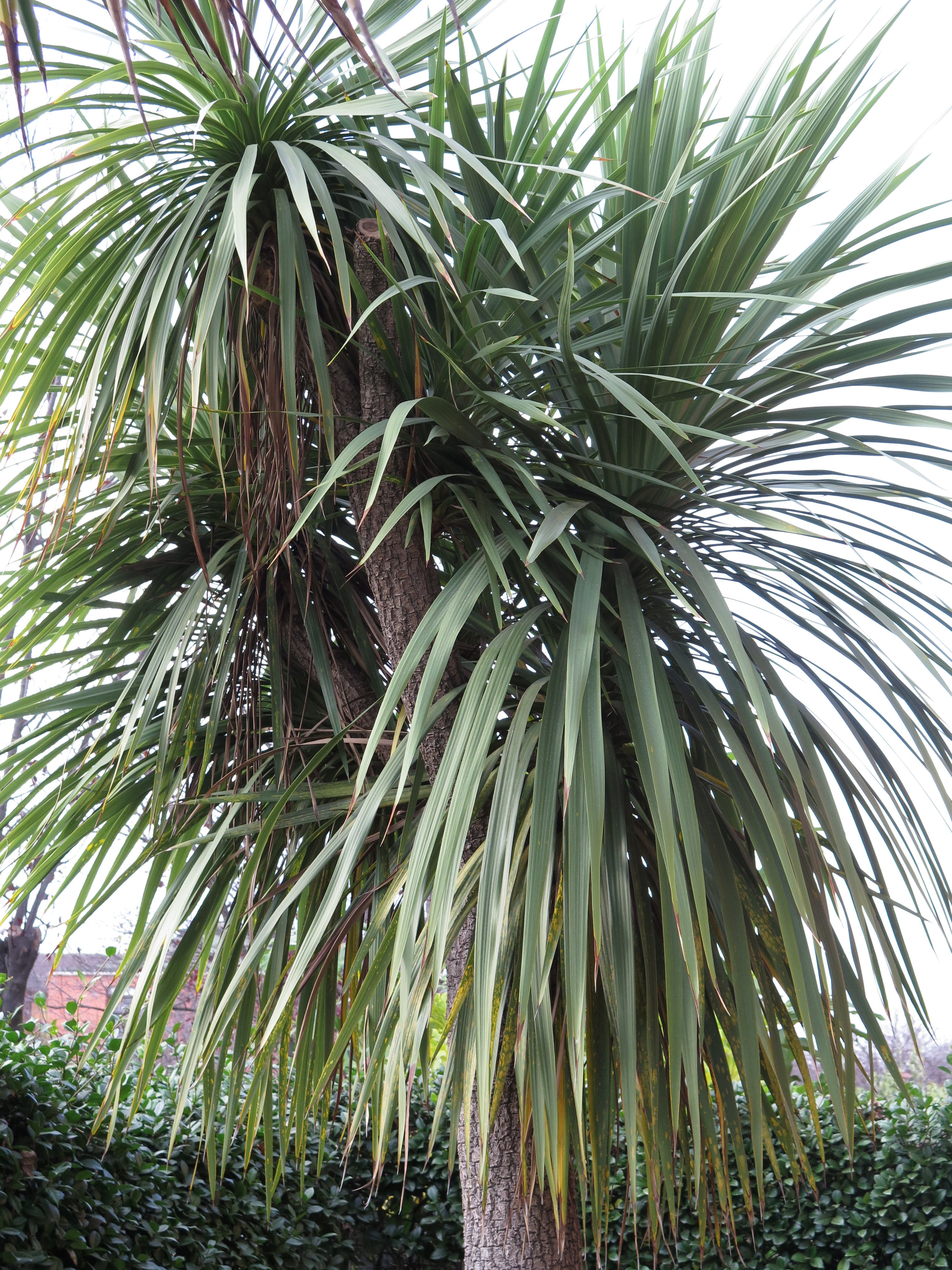 Cordyline australis in Rome (Italy)